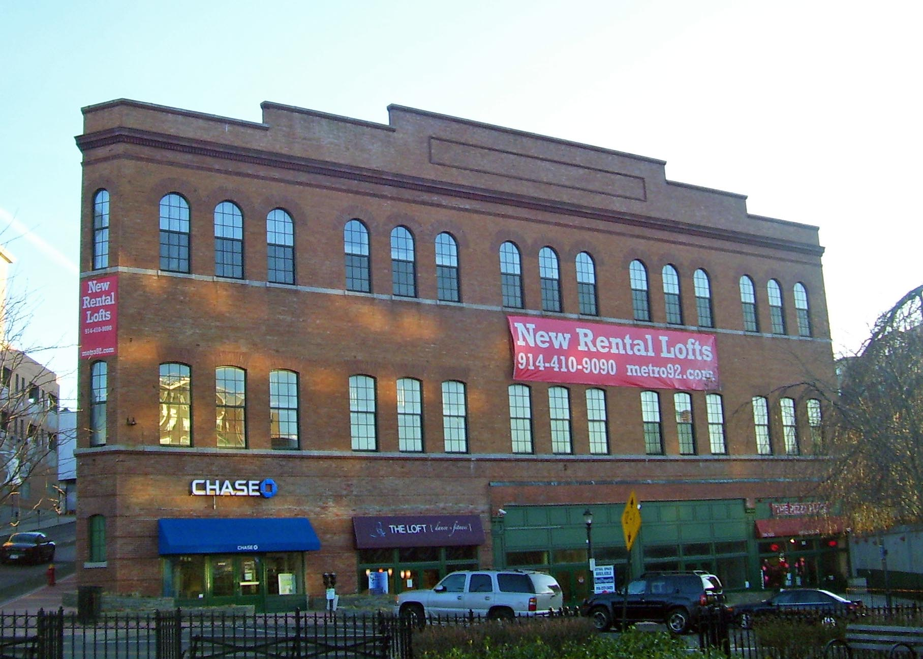 Former trolley barn, downtown Yonkers, NY, USA